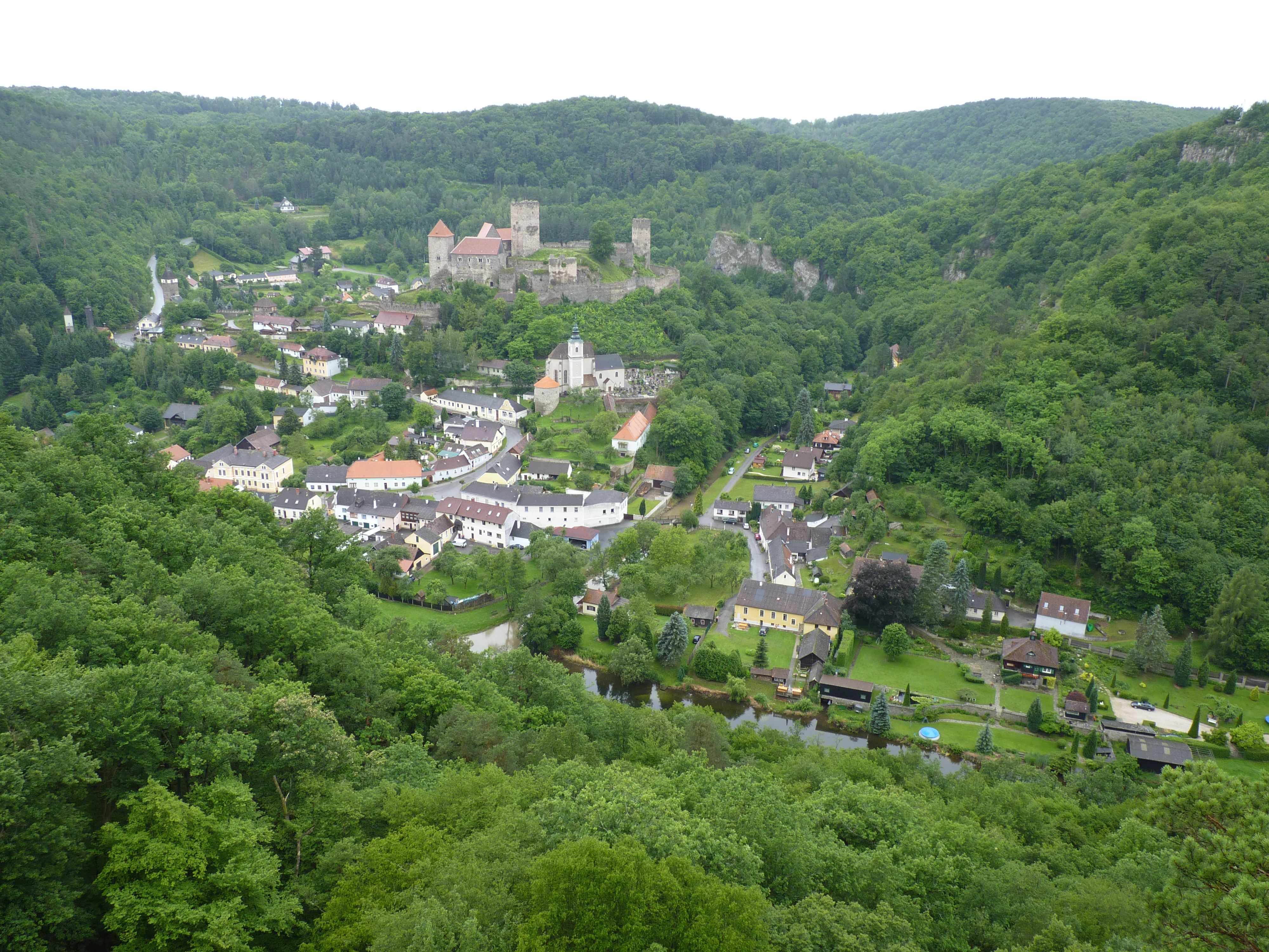 Hardegg view, Znojmo District, South Moravian Region, Czech Republic